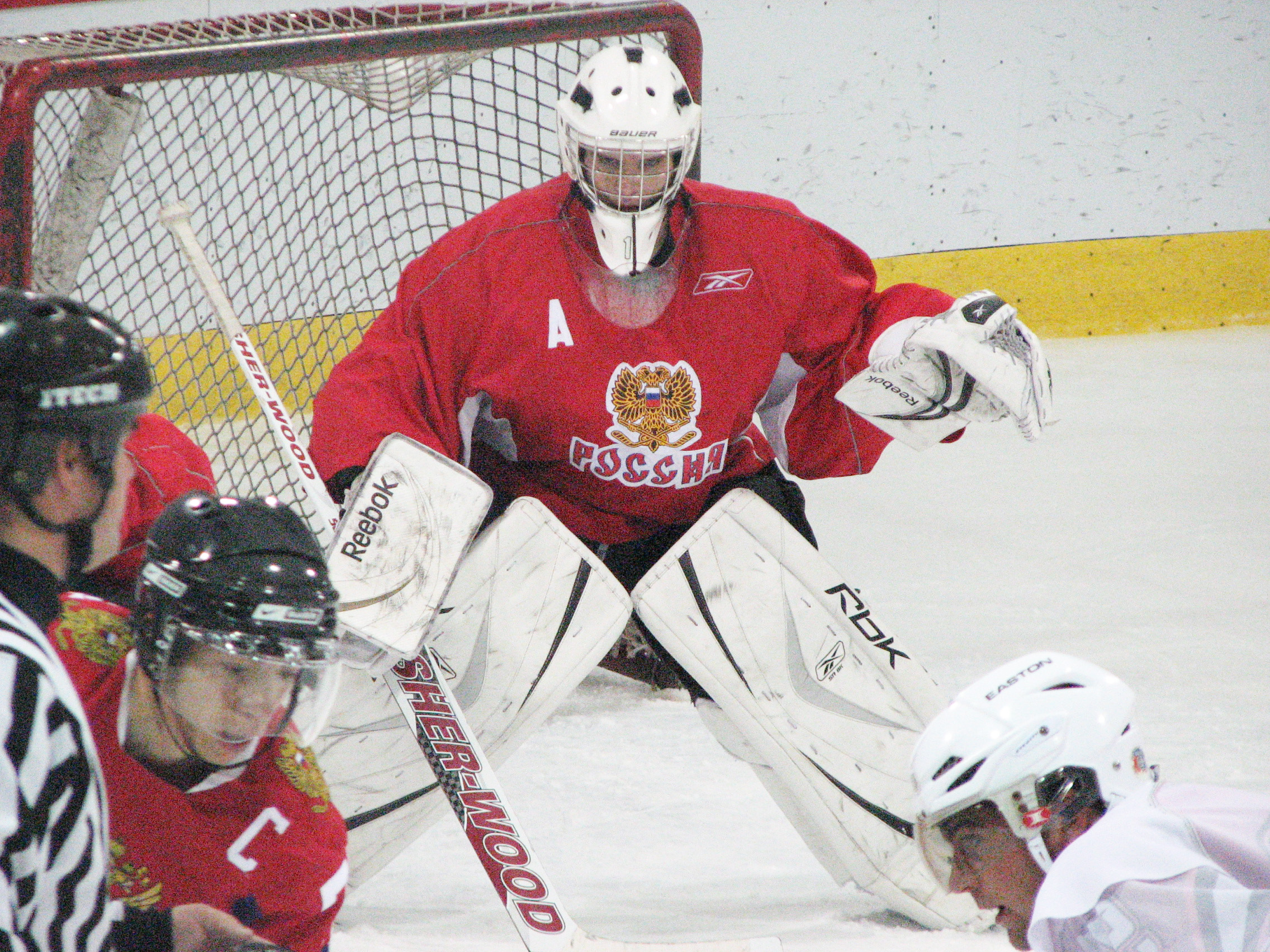 Vincent Legault goalie for the Brossard Red Machine